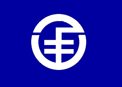 Flag of Kannami Shizuoka